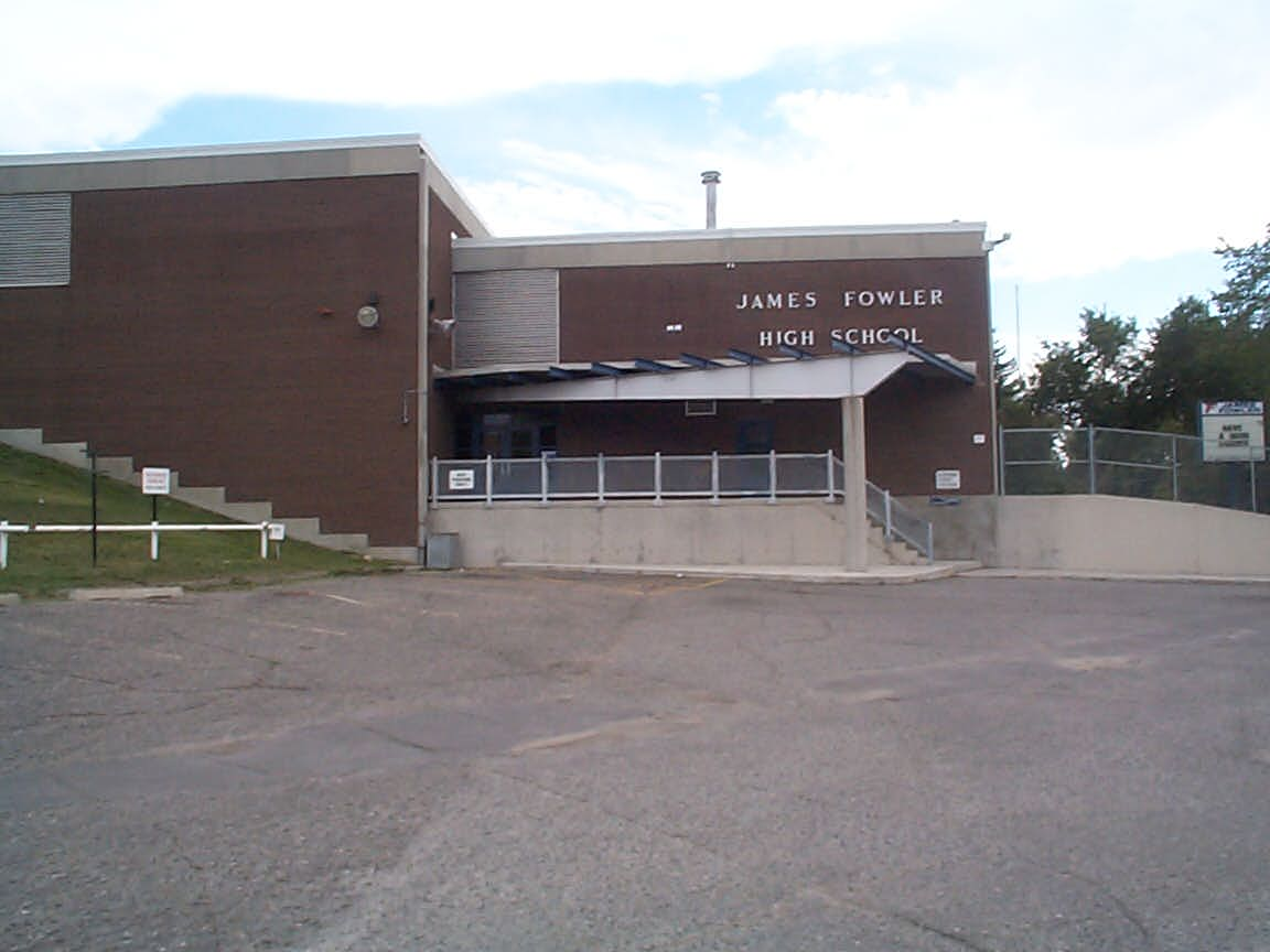 James Fowler High School, 4004 - 4 Street N.W., Calgary, Alberta, Canada, T2K 1A1.